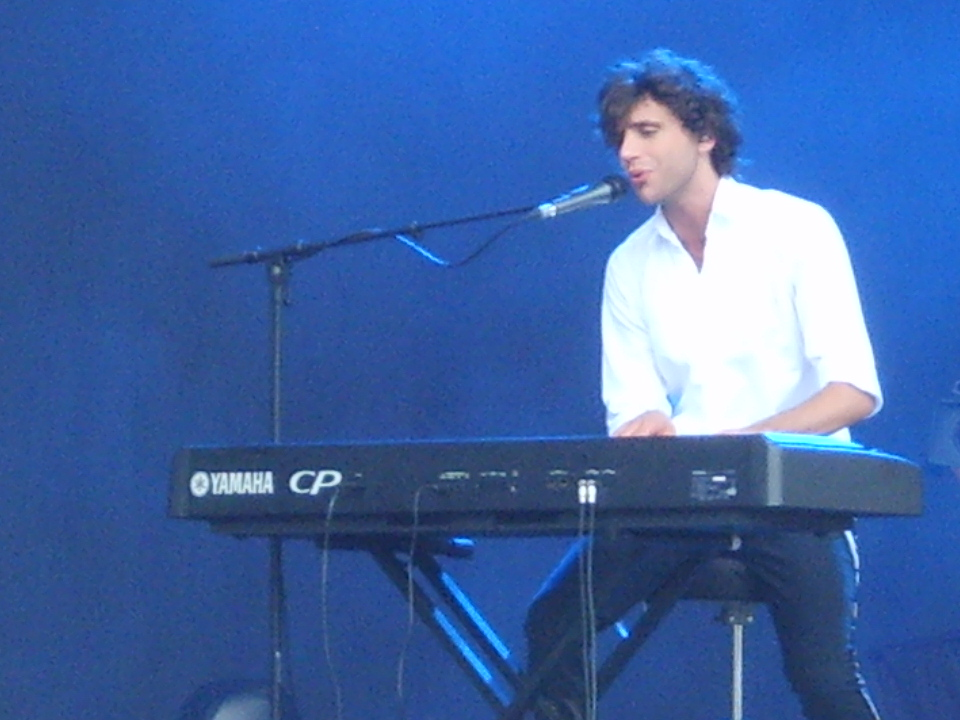 A photograph of Mika, taken at V Festival 2007, by me (Seraphim Whipp). I would like to be attributed as the creator.